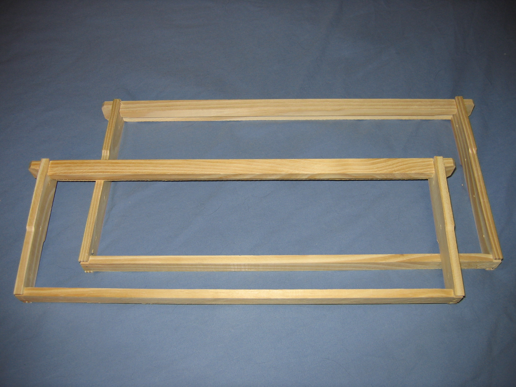 Photograph of two wedge top frames (sizes 91/8 inches and 61/4 inches) for a Langstroth style beehive take by Robert Engelhardt. This picture was taken specifically for the Beekeeping Wiki book, but may be used for any purpose for which it is fit.